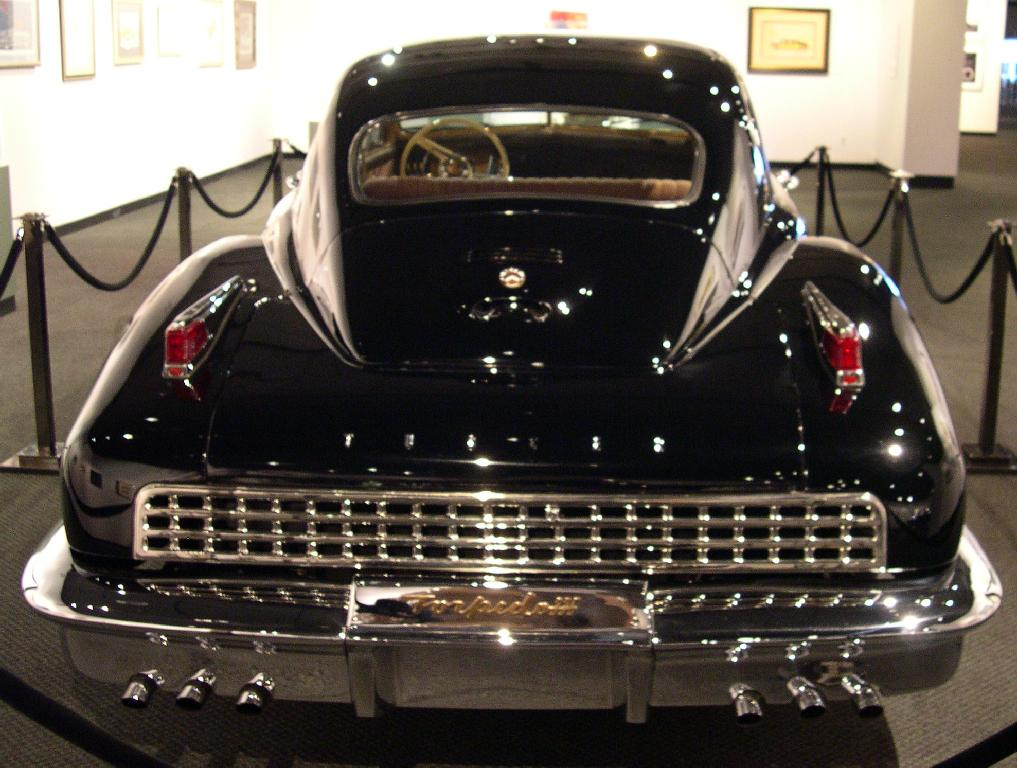 Rear view of the 1948 Tucker Torpedo at the Petersen Automotive Museum, Los Angeles, CA. This Tucker '48 is car number 1030.